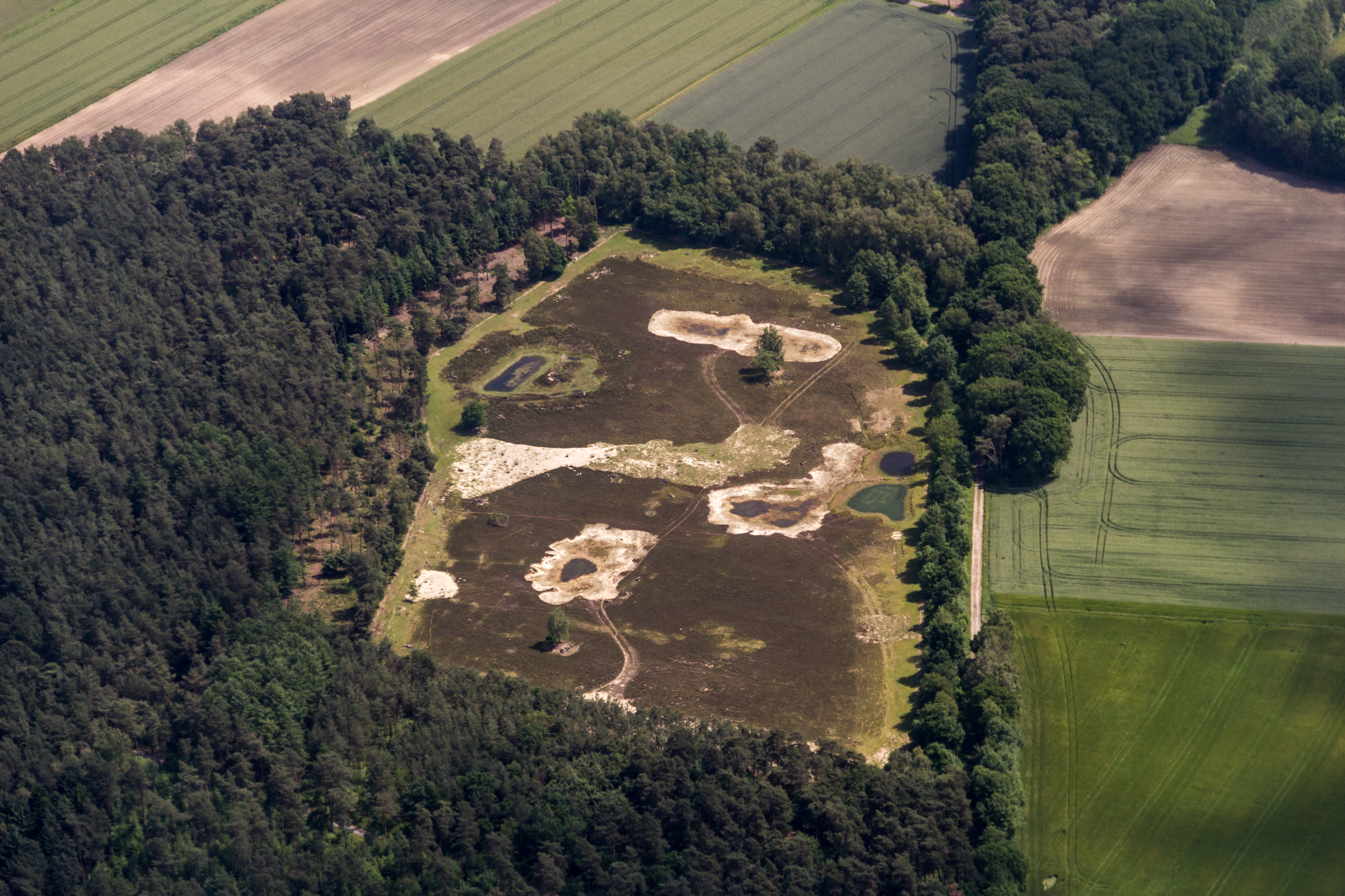 Ostbevern, North Rhine-Westphalia, Germany